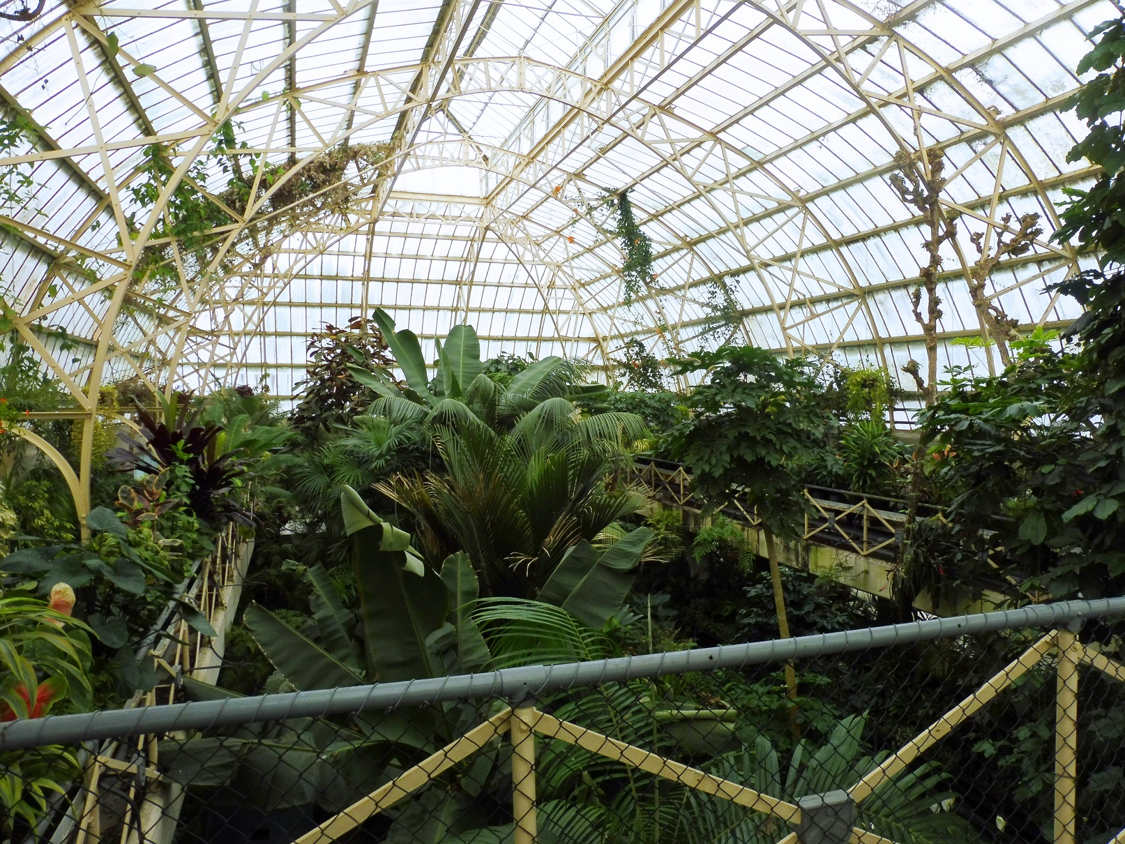 Interior of Cumingham House conservatory at Christchurch Botanic Gardens in Christchurch, New Zealand in 2016.